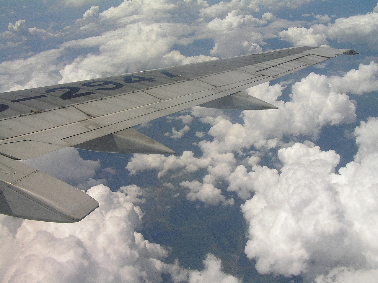 Cumulus clouds viewed on a plane from Air china.